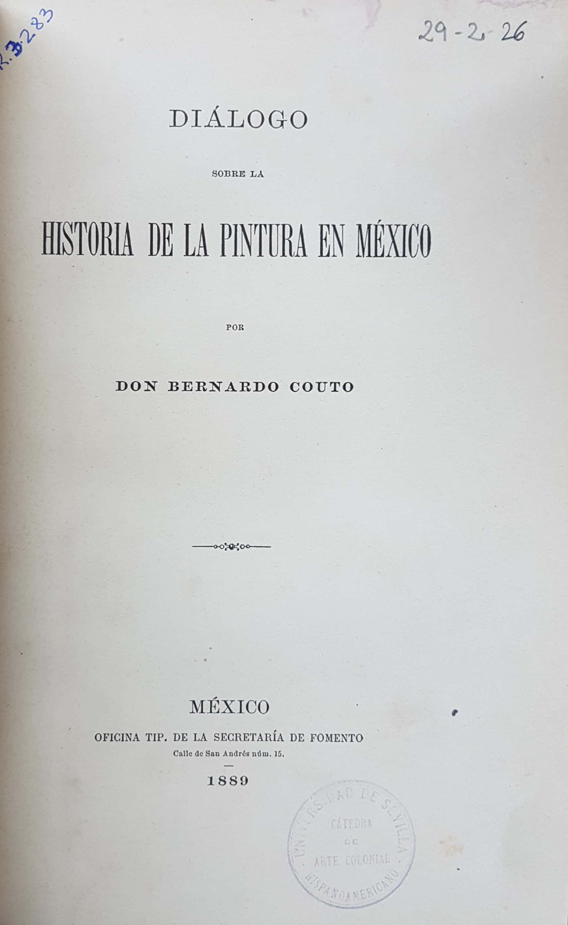 Diálogo sobre la historia de la pintura en México Autor: José Bernardo Couto Editorial: México : Oficina de la Secretaría de Fomento, 1889 Arte 29-2-26